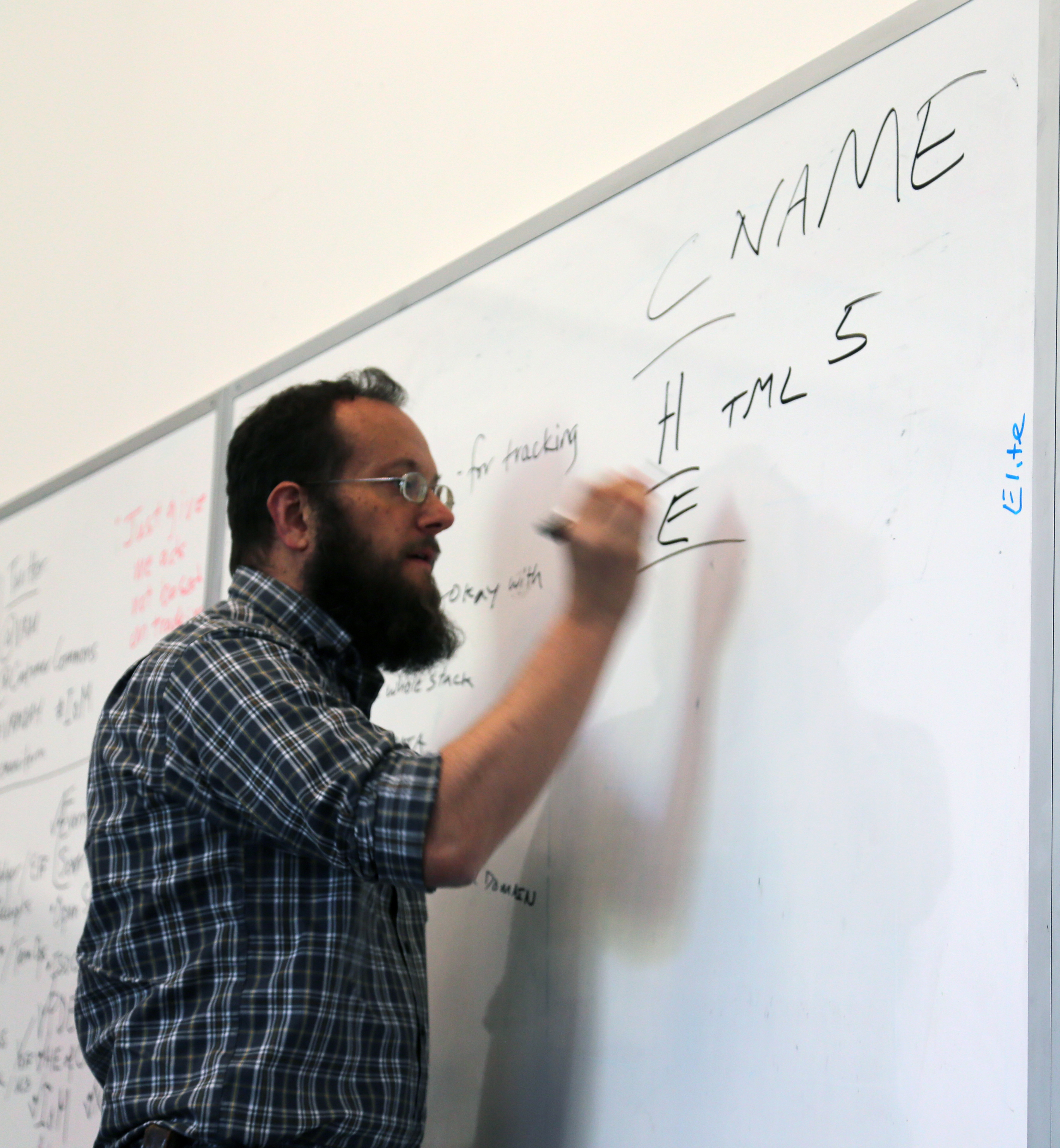 Don Marti explains CHEDDAR